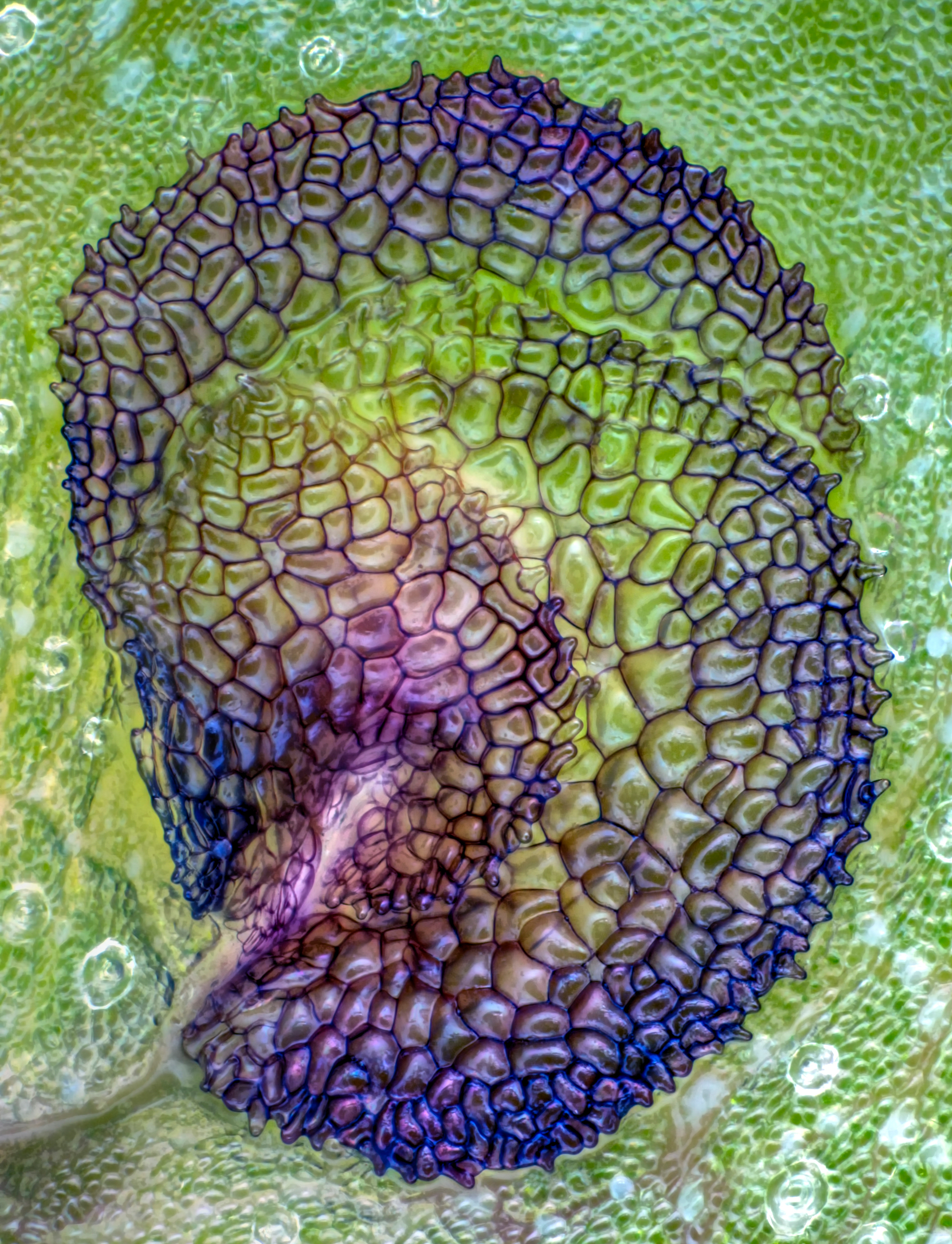 Ventral scales of Marchantia polymorpha subsp. ruderalis where they emerge onto the dorsal surface of the thallus. Notes: The function of these scales is to protect the growing point of the thallus tip. Technical: Real-world width of image: about 1 mm; Stack of 114 frames; Objective: Olympus LMPlanFl 20x.